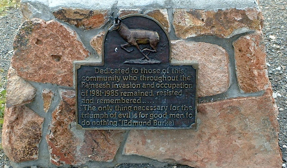 Photograph of a plaque mounted at the base of the flagpole at the Antelope, Oregon post office, "Dedicated to those of this community who throughout the Rajneesh invasion and occupation of 1981-1985 resisted and remembered."